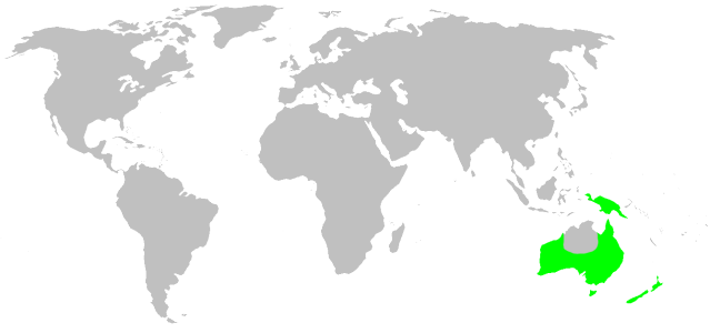 Nicodamidae habitat distribution, drawn after Platnick: World Spider Catalog 7.0. This is not at all a precise rendering of the distribution! If you have better information, please replace this map, or send me the info, and i will redraw it.